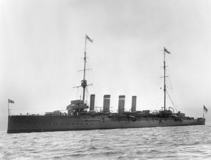 Broadside photo of HMS Falmouth. : it is a commercial photo likely taken to produce a series of postcards by H. Symonds & Co of Portsmouth, which is no longer in operation (similar set).